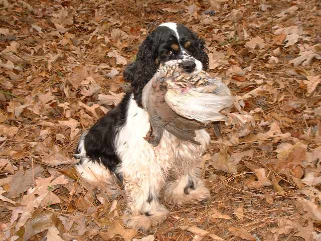 American Cocker Spaniel with partridge